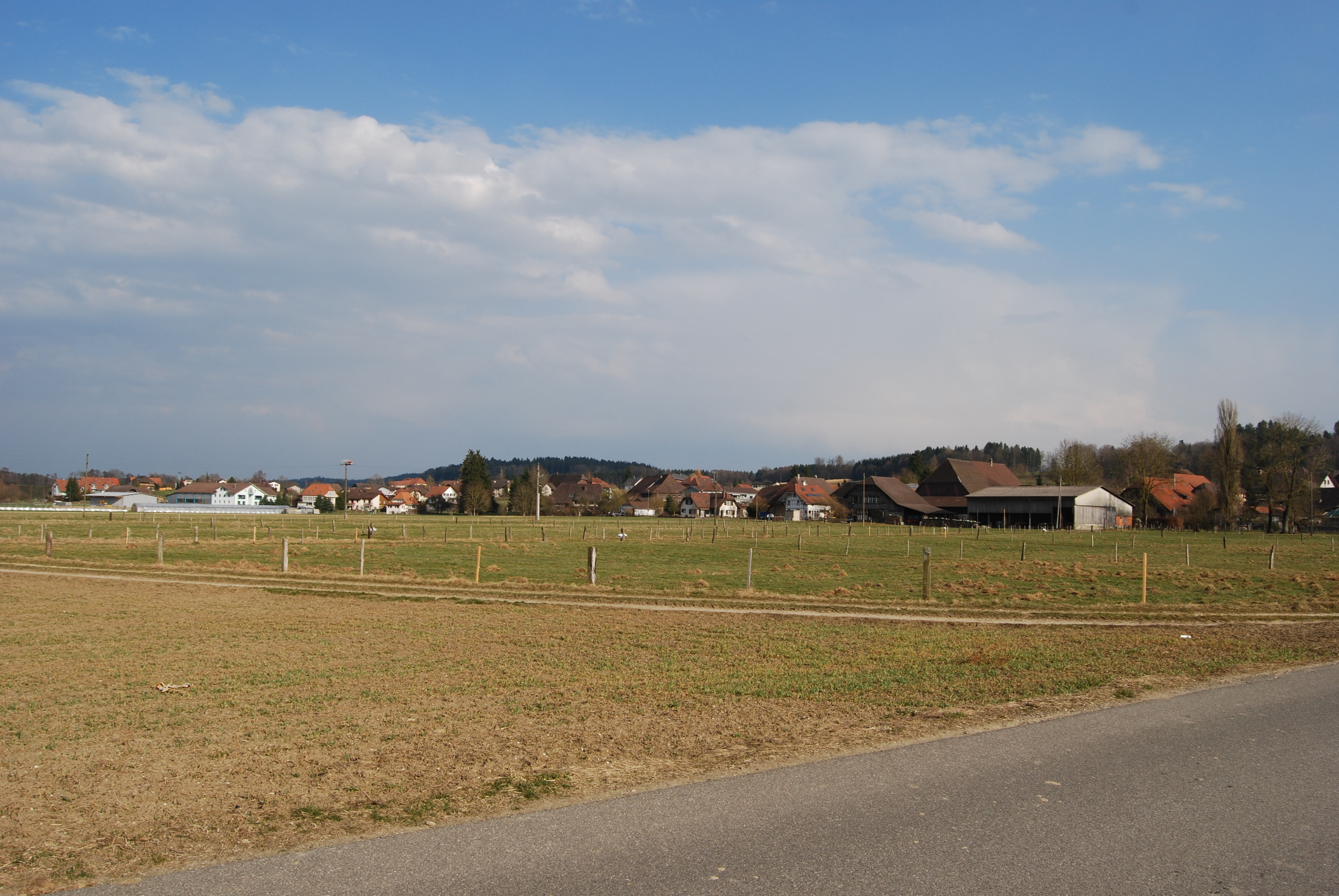 Bleienbach, canton of Bern, SwitzerlandEsperanto: Bleienbach, Kantono Berno, Svislando